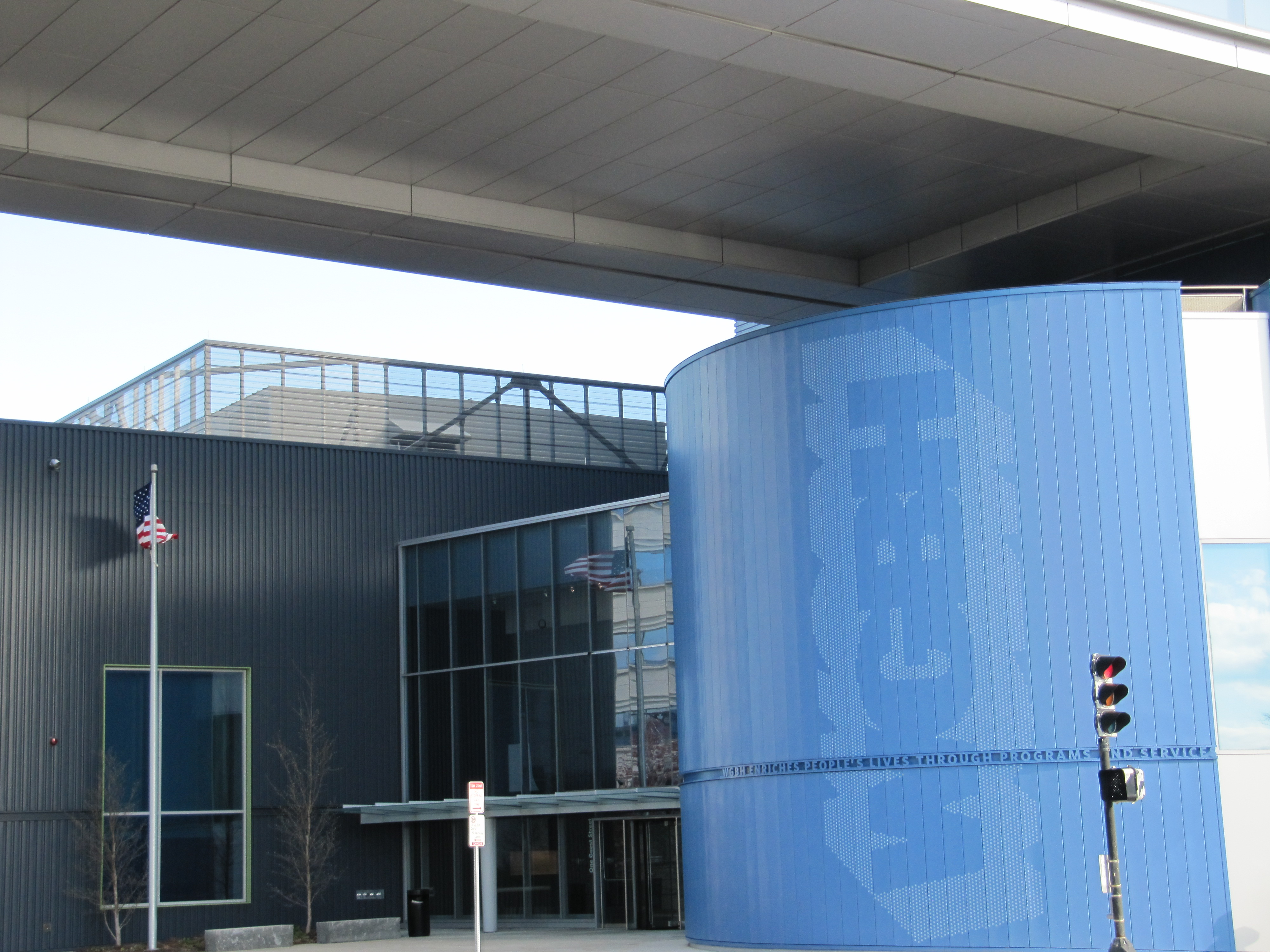 WGBH studio complex, 1 Guest Street, Brighton/Boston. Entrance, seen from Market Street